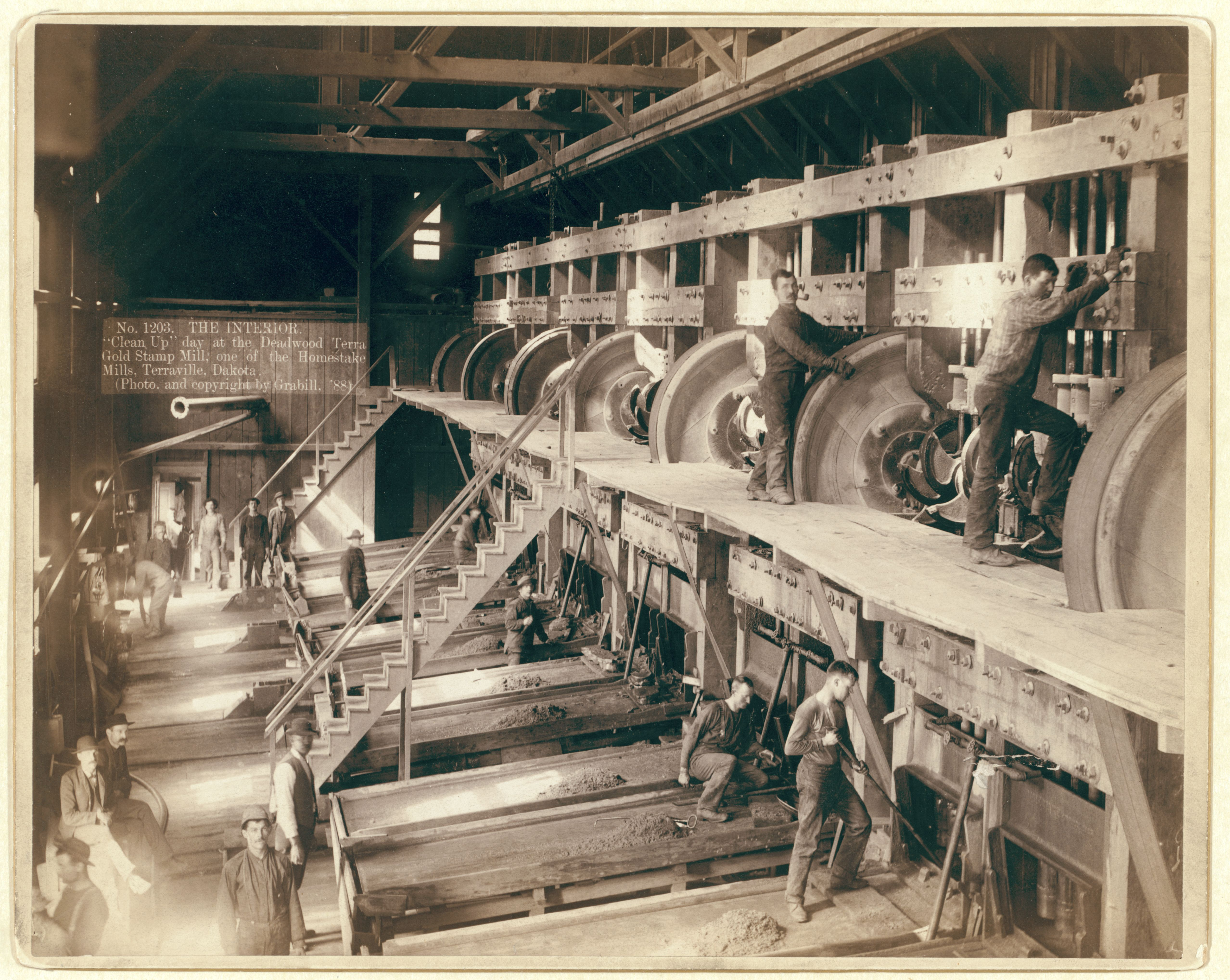 Original title The Interior. "Clean Up" day at the Deadwood Terra Gold Stamp Mill, one of the Homestake Mills, Terraville, Dakota Interior of the Deadwood Terra Gold Stamp mill. Crushed ore is washed over mercury coated copper sheets, whence fine gold particles form an almagam with the mercury. The amalgam was scraped off and the gold then separated from the amalgam by heating and evaporating the mercury which was then recovered by a condenser for reapplication to the plates